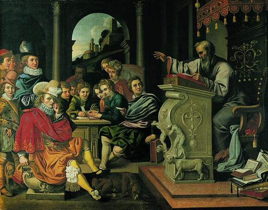 Painting depicting a lecture in a knight academy, painted for Rosenborg Castle as part of a series of seven paintings depicting the seven independent arts. This painting illustrates Rhetorics.